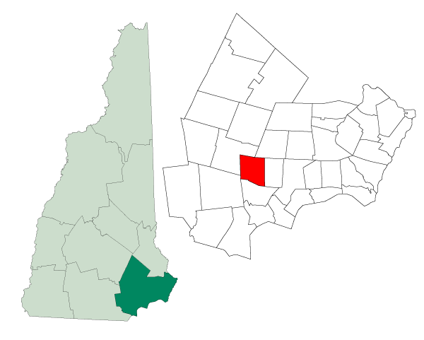 Map of a municipality in Rockingham County, New Hampshire